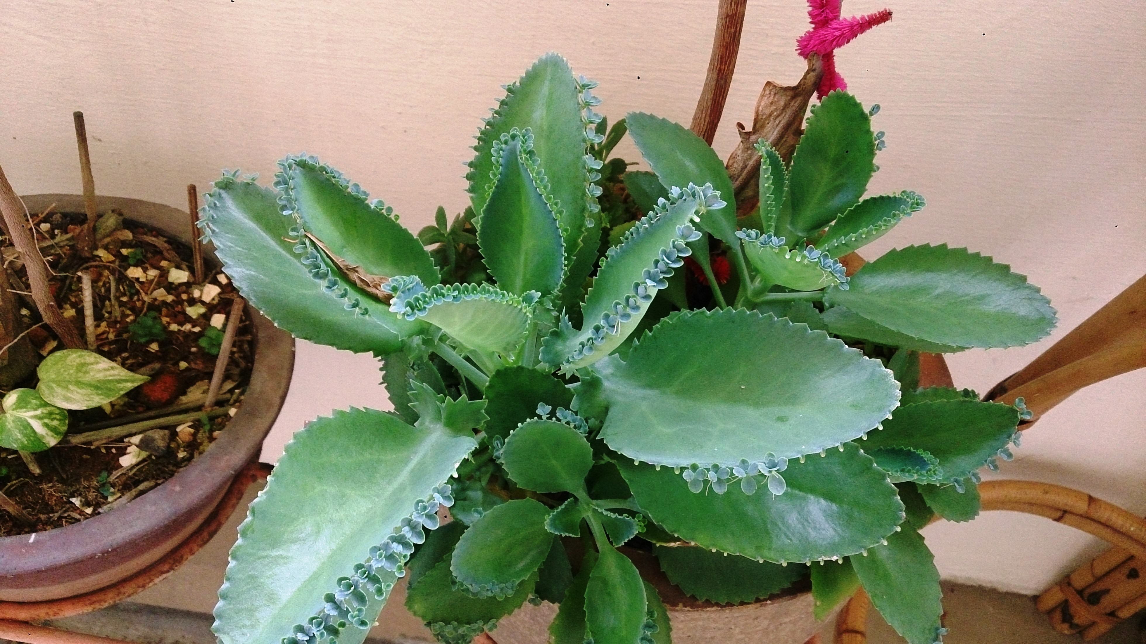 A Bryophyllum plant (also known as life plant). This plant is special because it propagates by growing new shoots from the leaves.